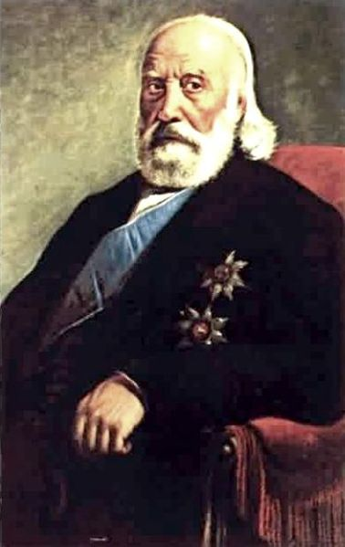 Konstantinos Kanaris (1795-1877) Athens, National Historical Museum